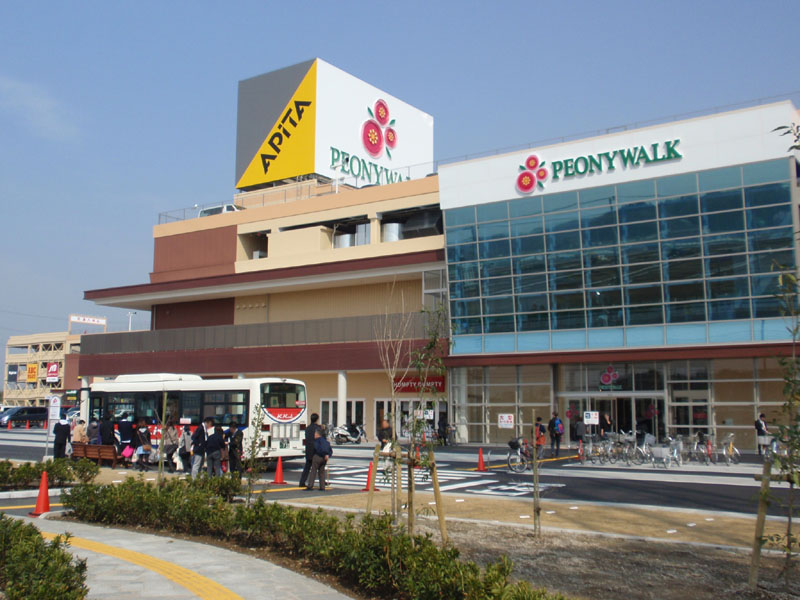 PEONY-WALK Higashimatsuyama Shopping Center (mall & apita buildings), Higashimatsuyama-city, Saitama-pref, Japan